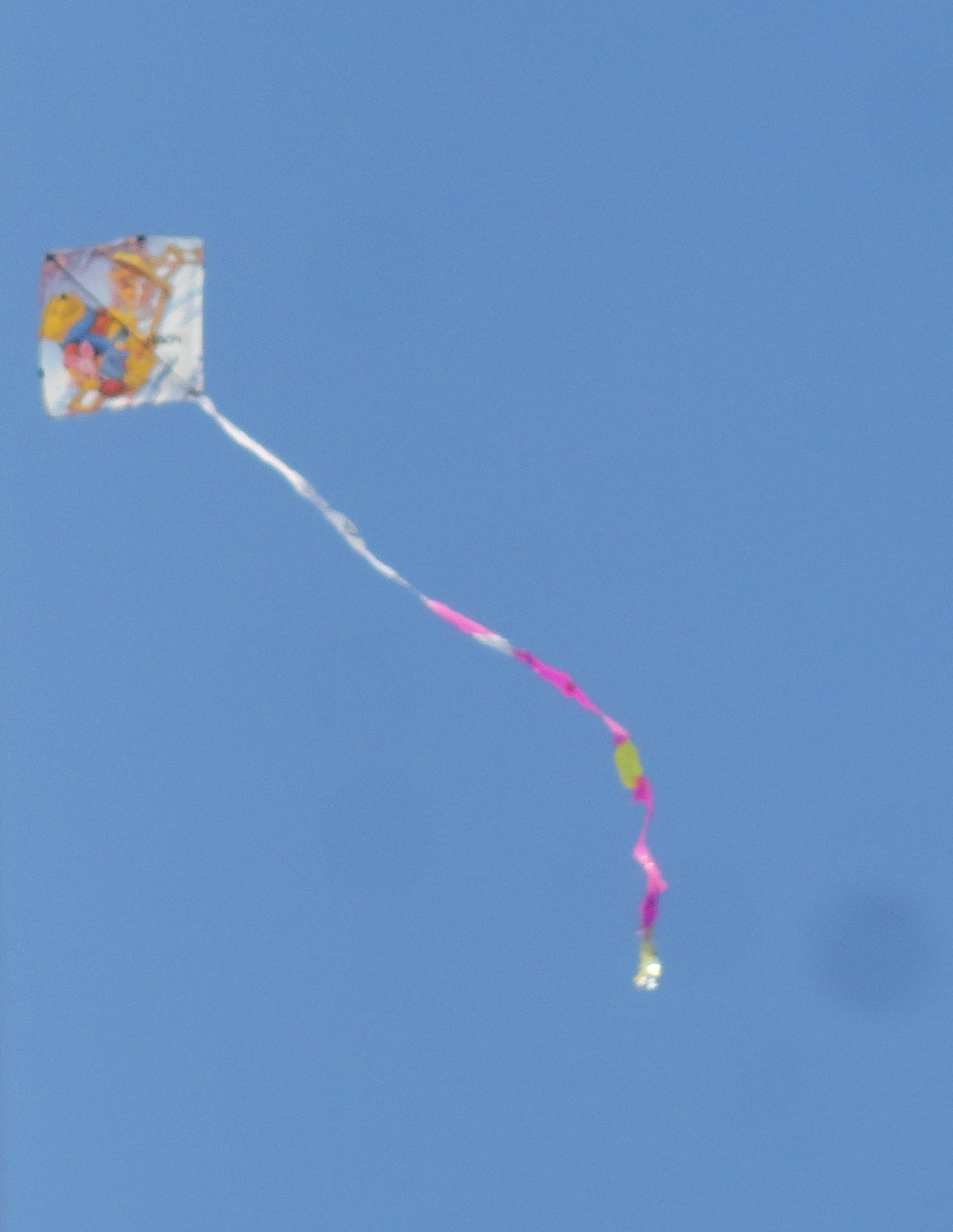 kites flying on sankranti festival day